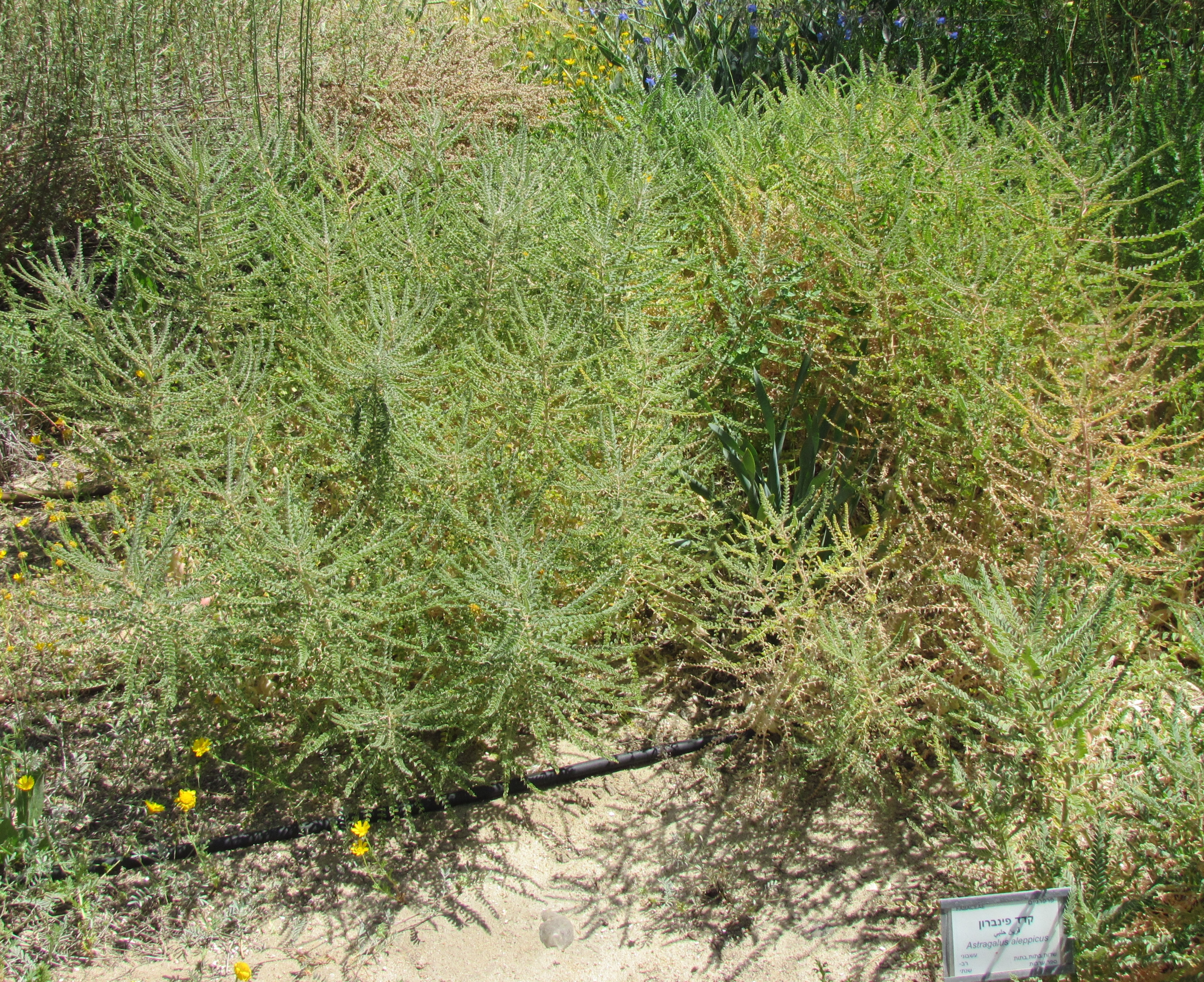 קדד פיינברון צולם בגן הבוטני בהר הצופים בירושלים, מאי 2014 Astragalus aleppicus